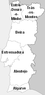 Ancient Provinces of Portugal, before the 19th century.